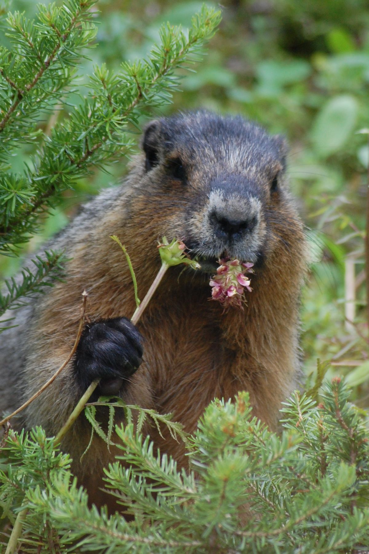 Groundhog (Marmota monax), near Peyto Lake (Alberta)